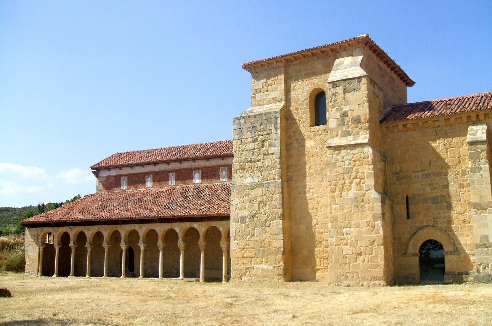 Antiguo monasterio mozárabe de San Miguel de Escalada (provincia de León, España)